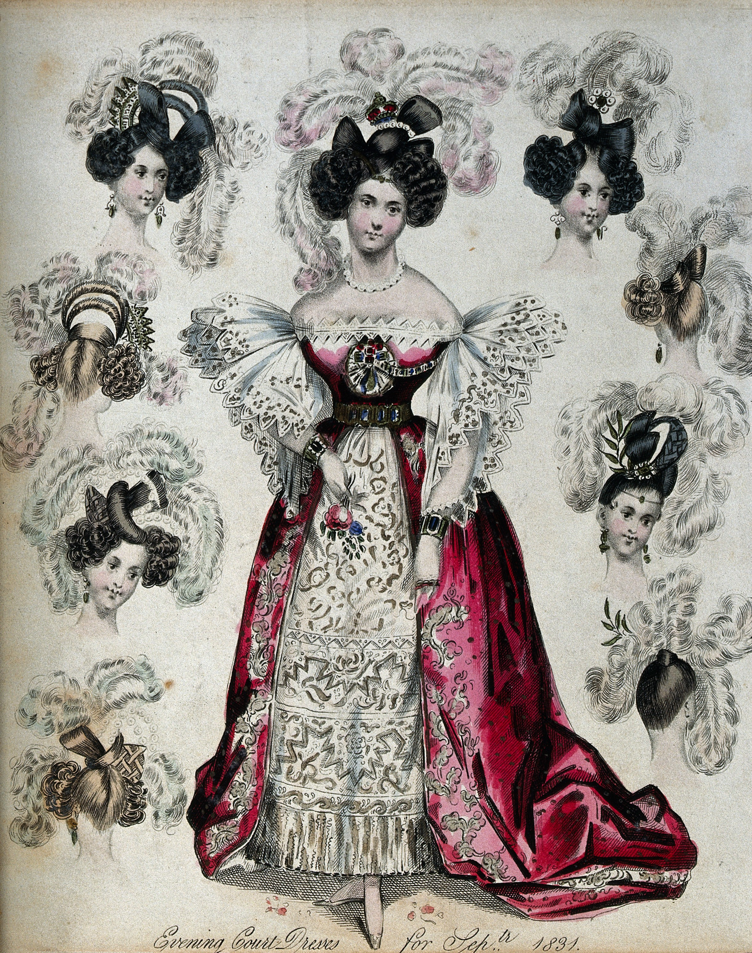 A woman wearing an "evening court dress" surrounded by eight heads of women wearing fashionable head-dresses with feathers. Coloured etching. Iconographic Collections